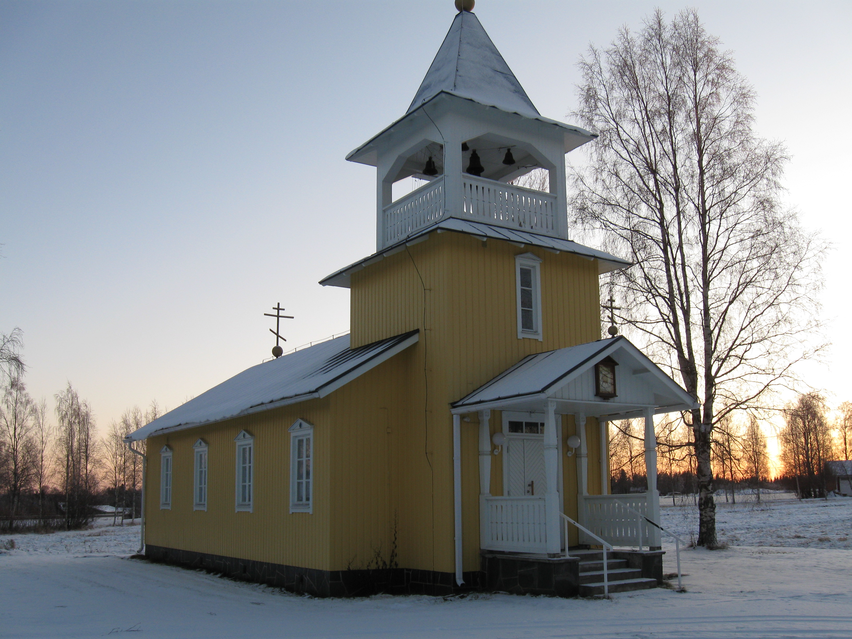 The orthodox chapel located in Muhos, Finland.